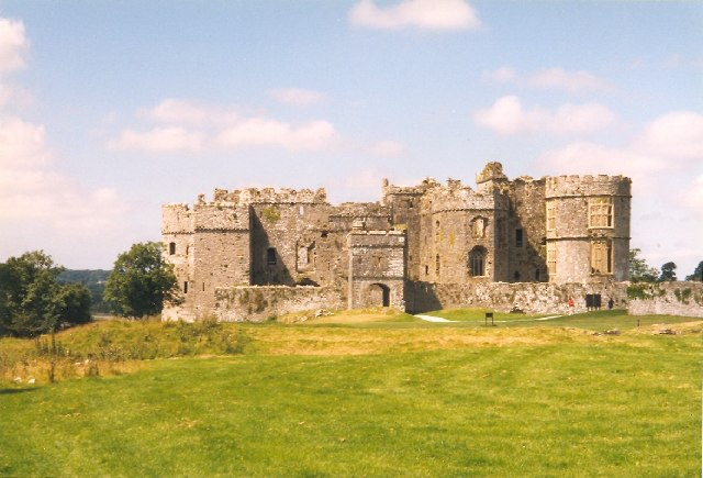 Carew Castle from the east. This view shows the Middle Gatehouse, built c.1500, and on the right the curved end of the Elizabethan North Range.